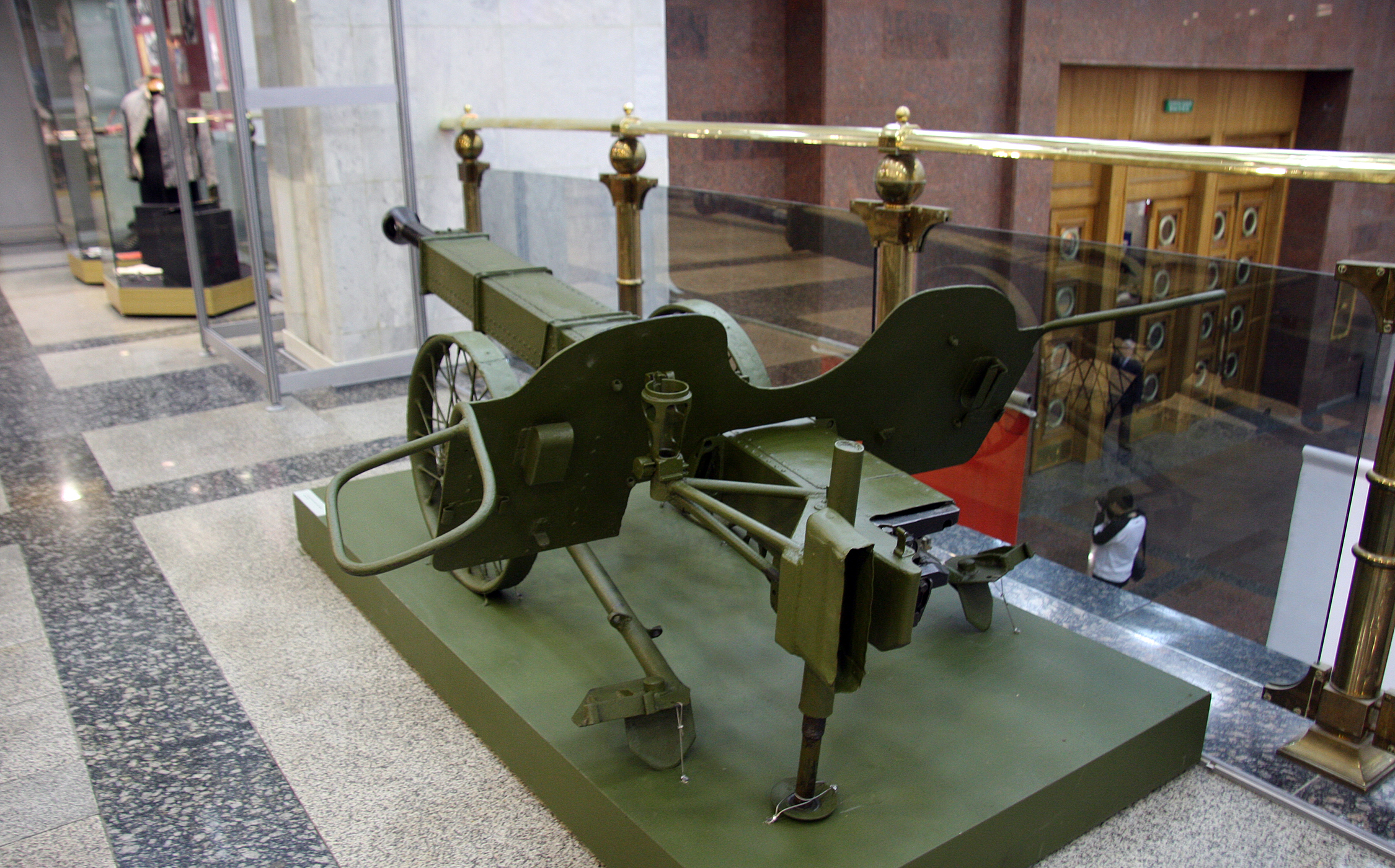 ChK-1M mod.1944 cannon - Izhevsky weapon factory exhibition